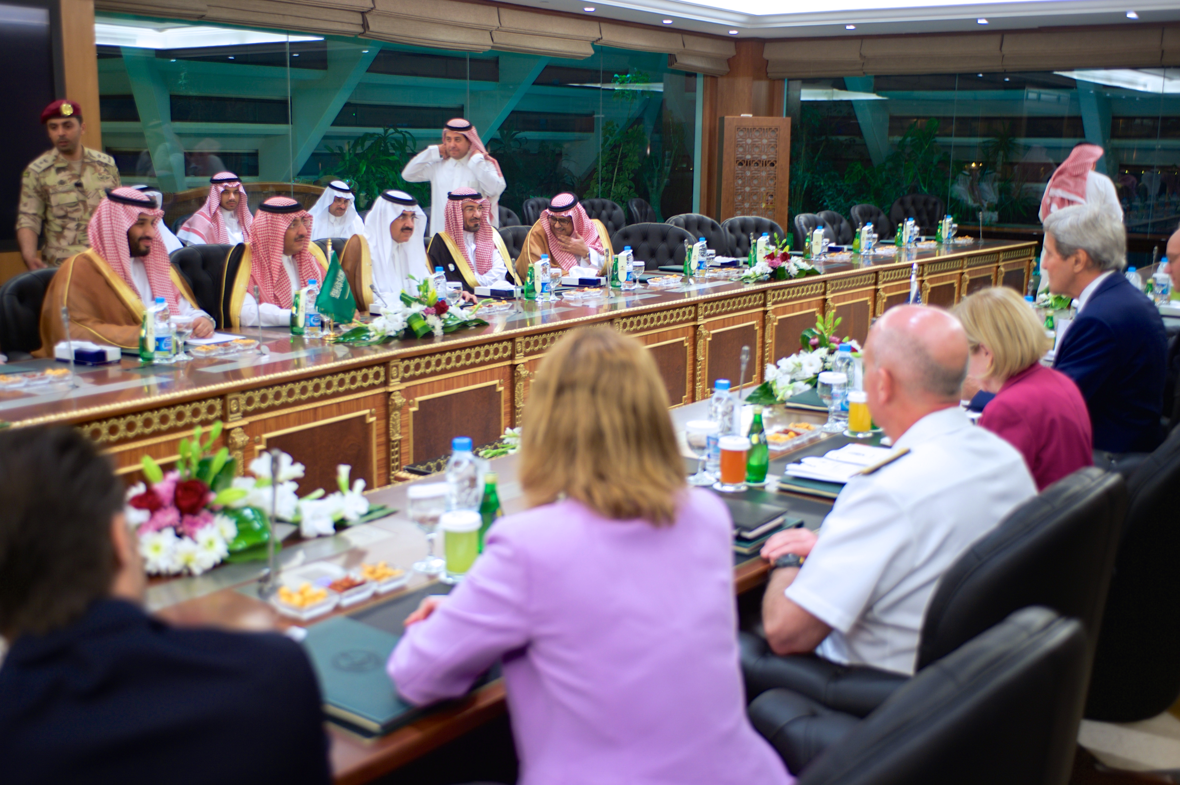 U.S. Secretary of State John Kerry sits across from Crown Prince Mohammed bin Nayef, at the Saudi Ministry of Interior in Riyadh, Saudi Arabia, on May 6, 2015, at the outset of a meeting and working dinner with him, Adel Al-Jubeir, the newly named Saudi Foreign Minister, and other government leaders. [State Department photo/ Public Domain]